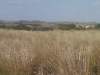 Black Kettle's campsite, the Washita River is marked by the trees lining it's banks in background of picture. Oklahoma.